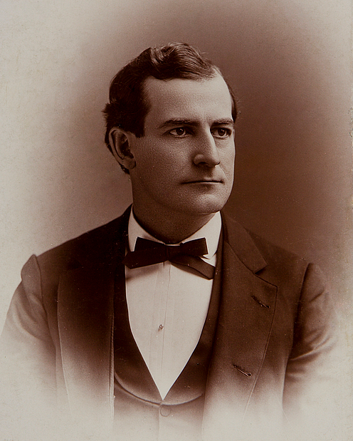 Photograph of William Jennings Bryan as a young man.